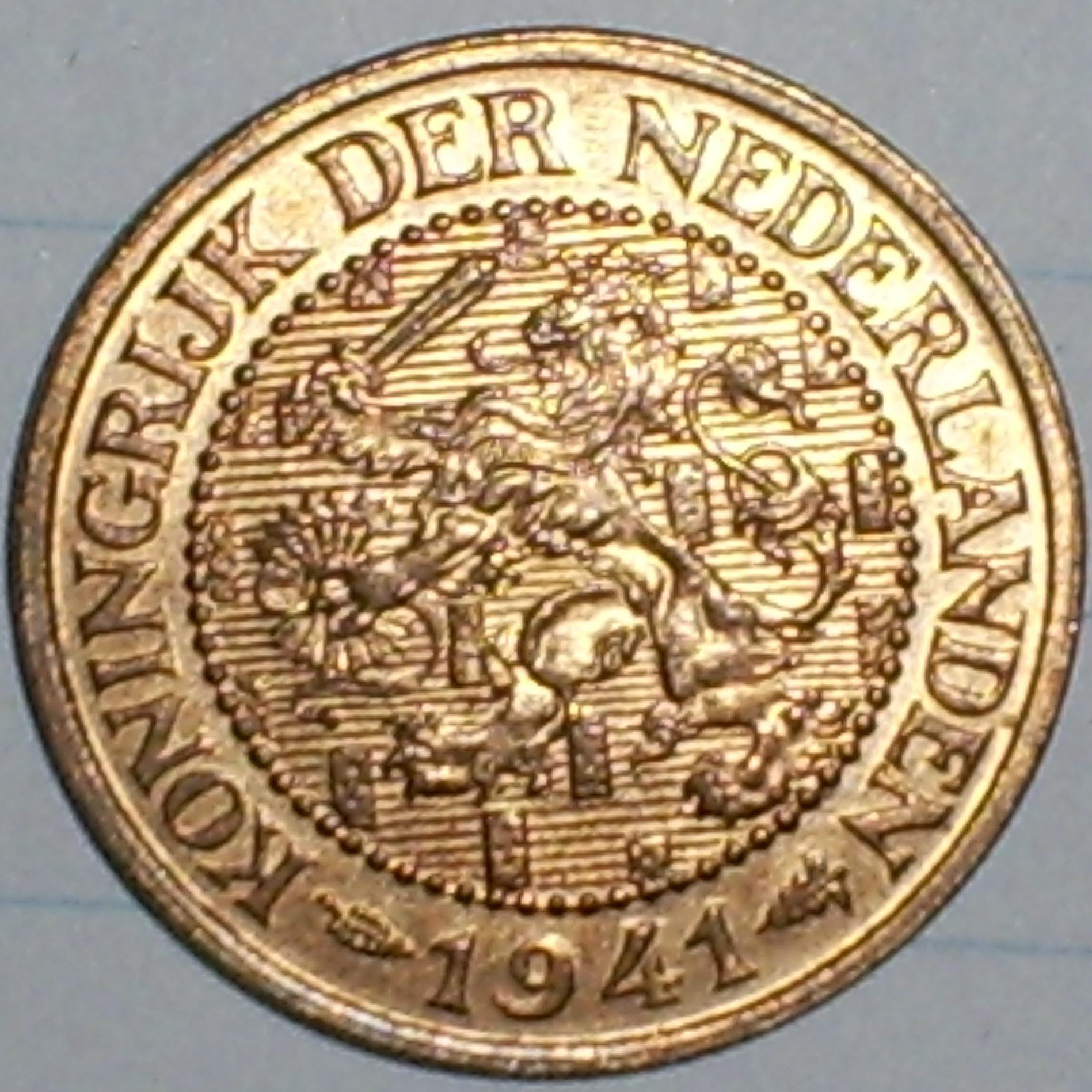 Tail of the 2.5 cents coin, The Netherlands, 1941.